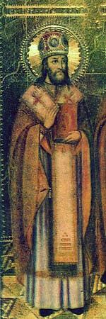 saint German of Kazan